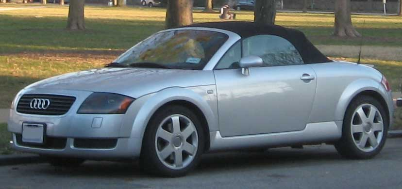 Audi TT photographed in Washington, D.C., USA.